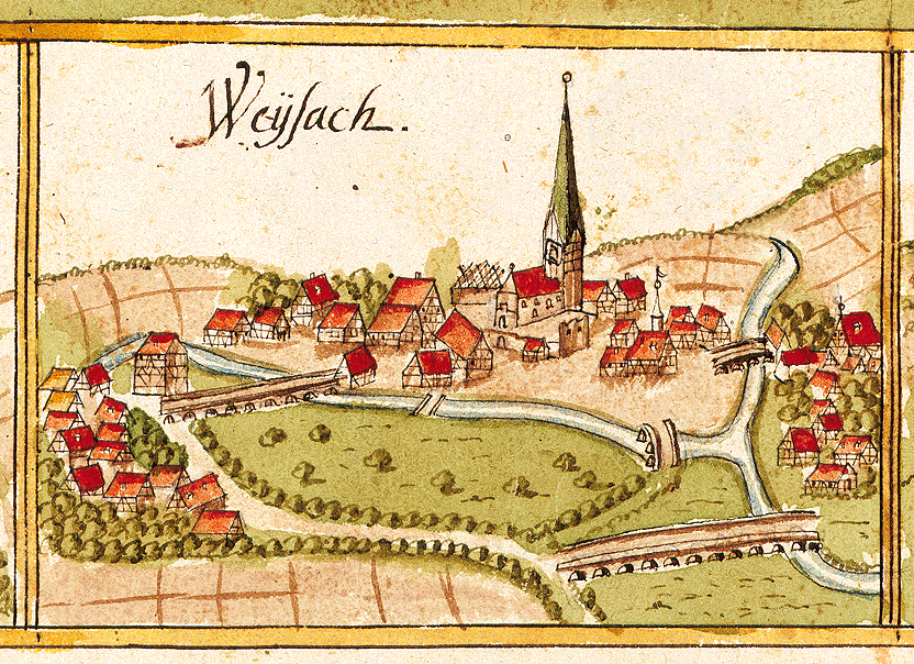 View of Unterweissach, Weissach im Tal, from the forest register books created by Andreas Kieser